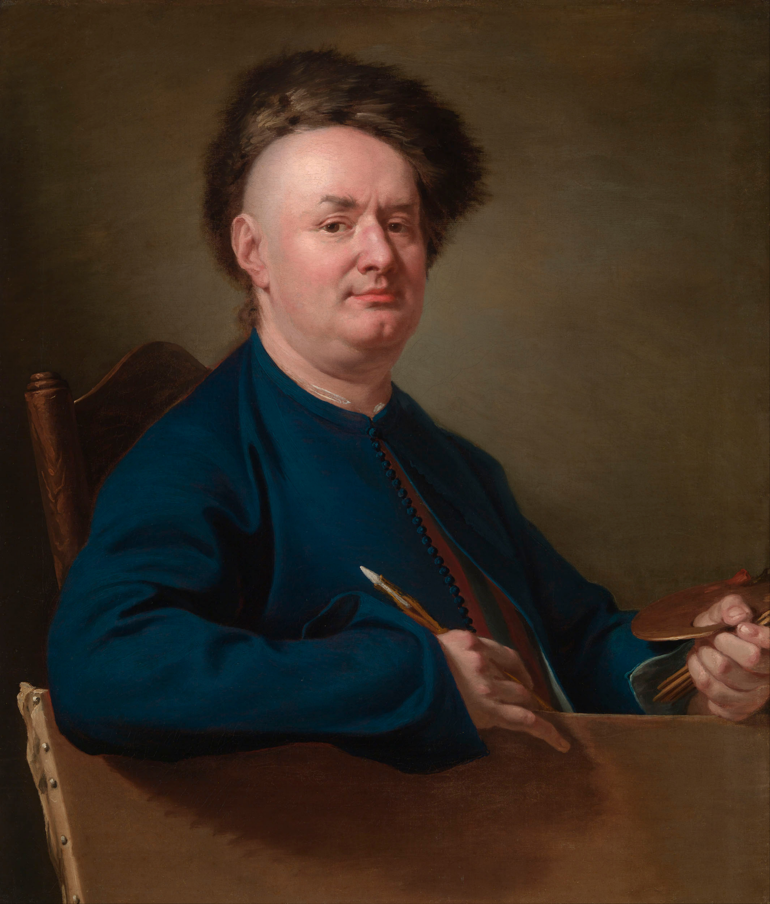 Jozef van Aken